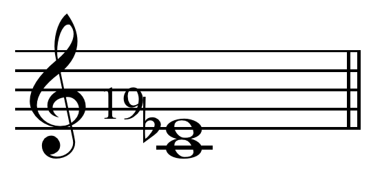 19th harmonic on C = E19♭ (Ben Johnston's notation). Just: 19:16 = 297.51 cents. Limit: 19-limit. MIDI pitch bend: 26,63